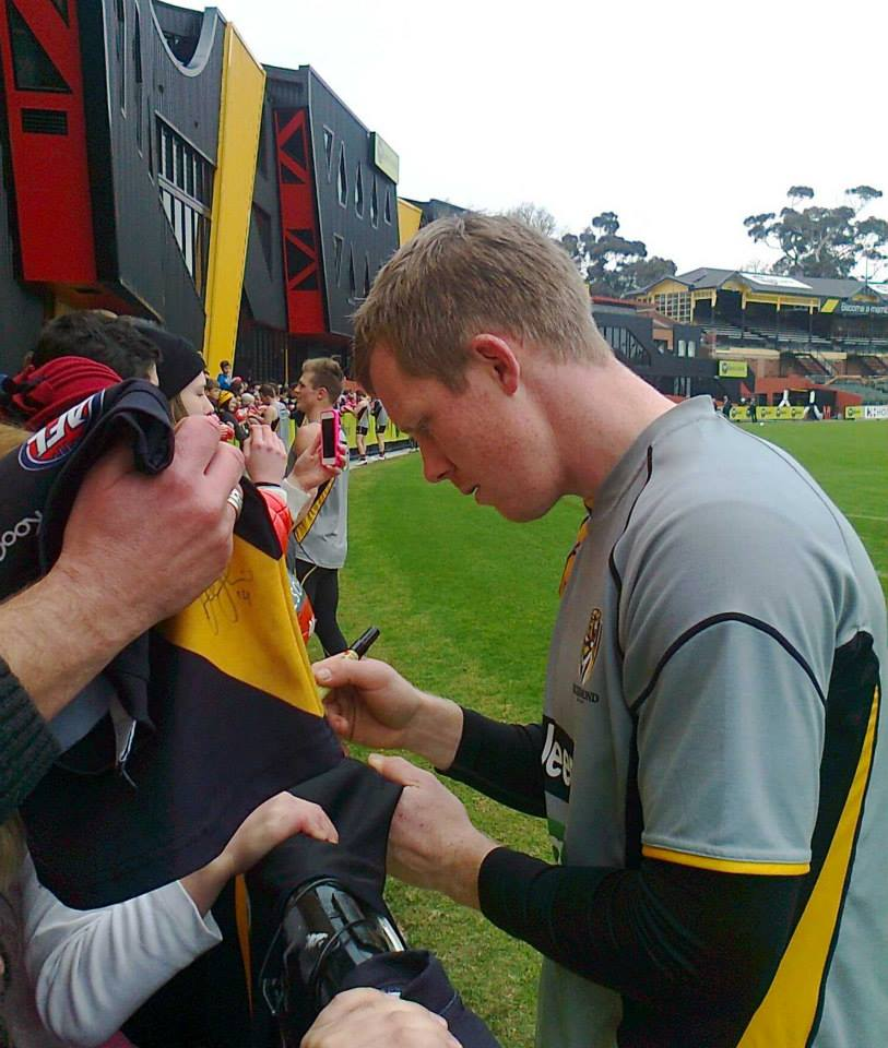 Jack Riewoldt at Richmond football training on 29 June 2013